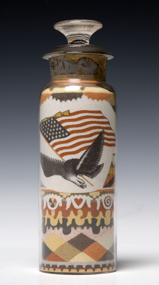 Andrew Clemens (American, 1857–1894) Sand Bottle, 1879 (front view) Colored sand in glass bottle 8 x 2 ½ x 2 ½ inches (20.3 x 6.4 x 6.4 cm) Collection of C. Wesley and Shelley Cowan, Terrace Park, Ohio